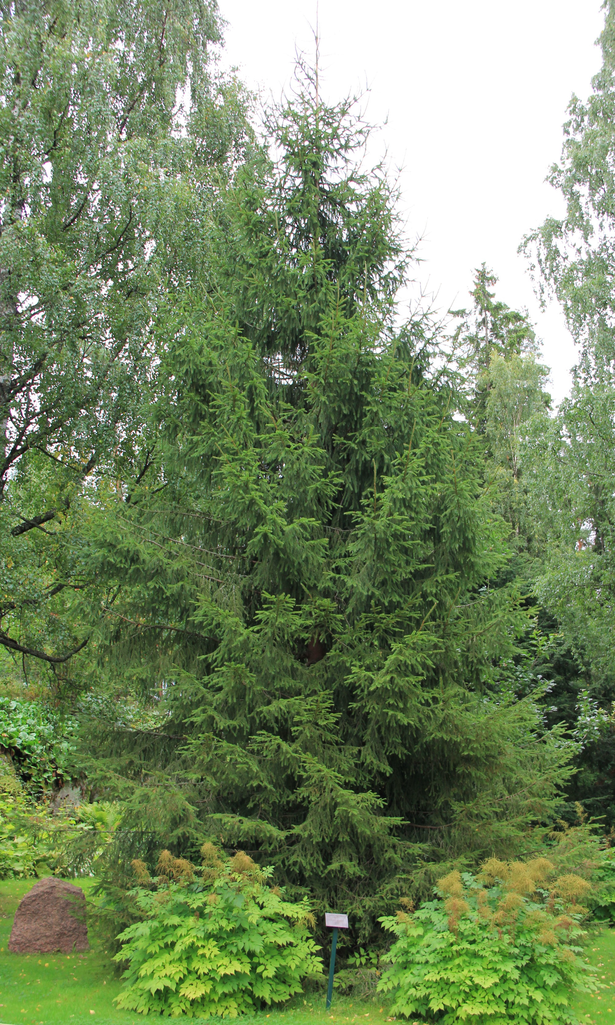 A memorial Picea abies (Norway spruce) at Kauniala hospital, Kauniainen, Finland. - Planted in 1982.